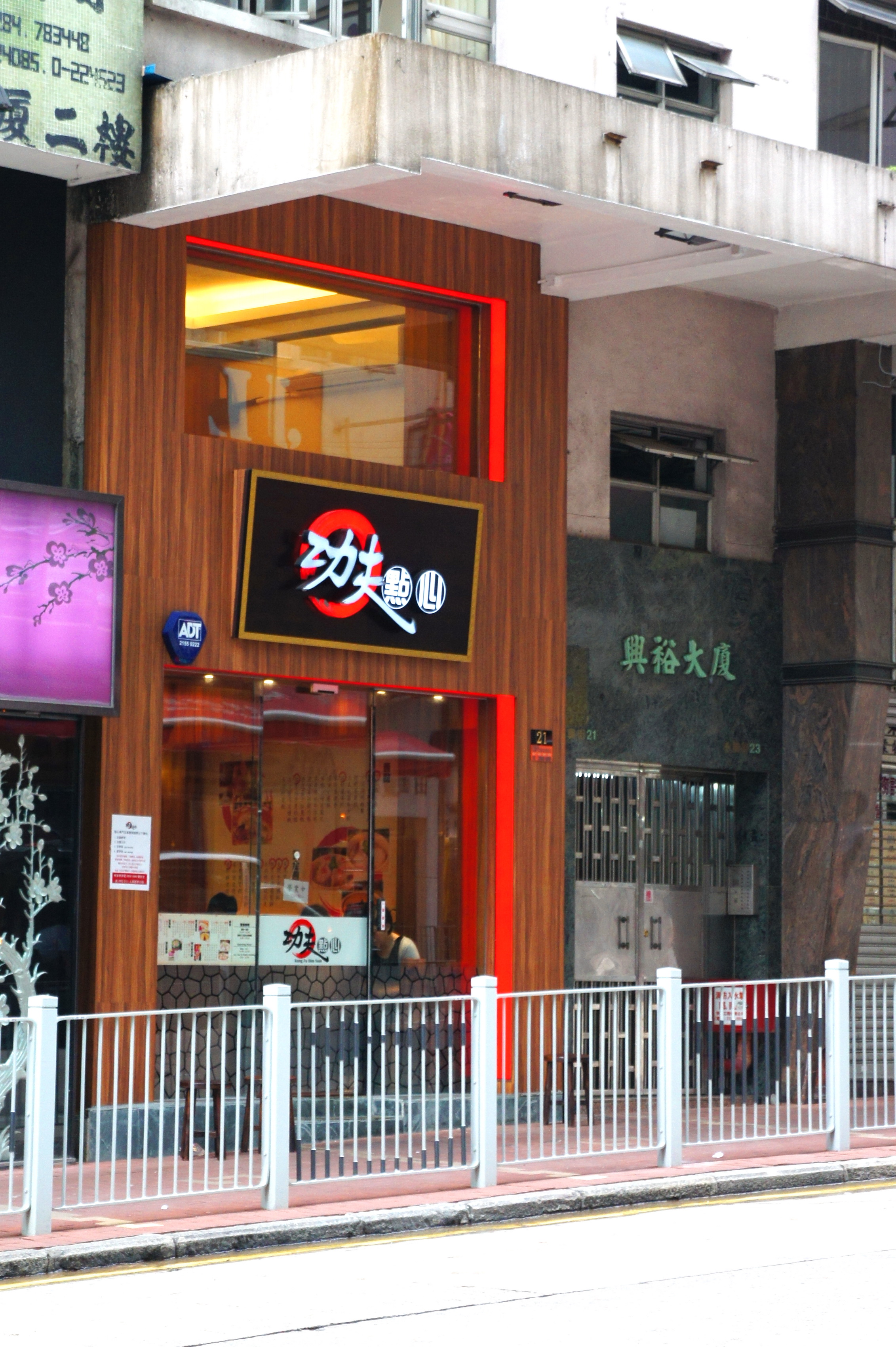 Kung Fu Dim Sum, 21 Wing Hing Street, Tin Hau, Hong Kong.